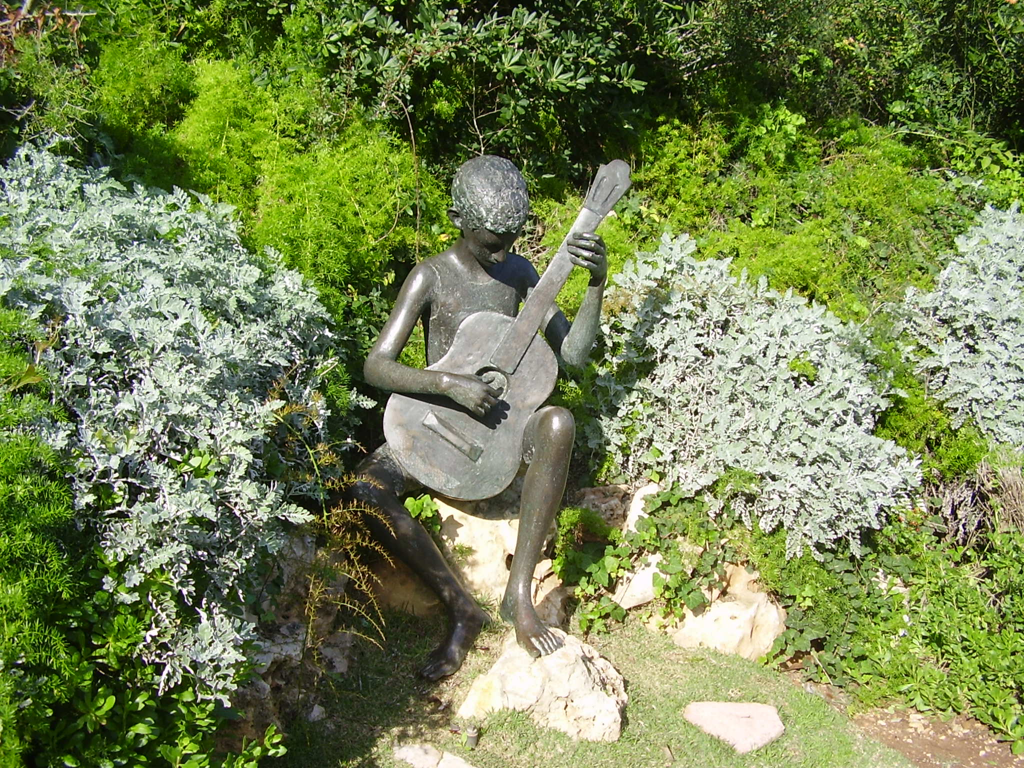 the guitar player by ursula malbin in haifa